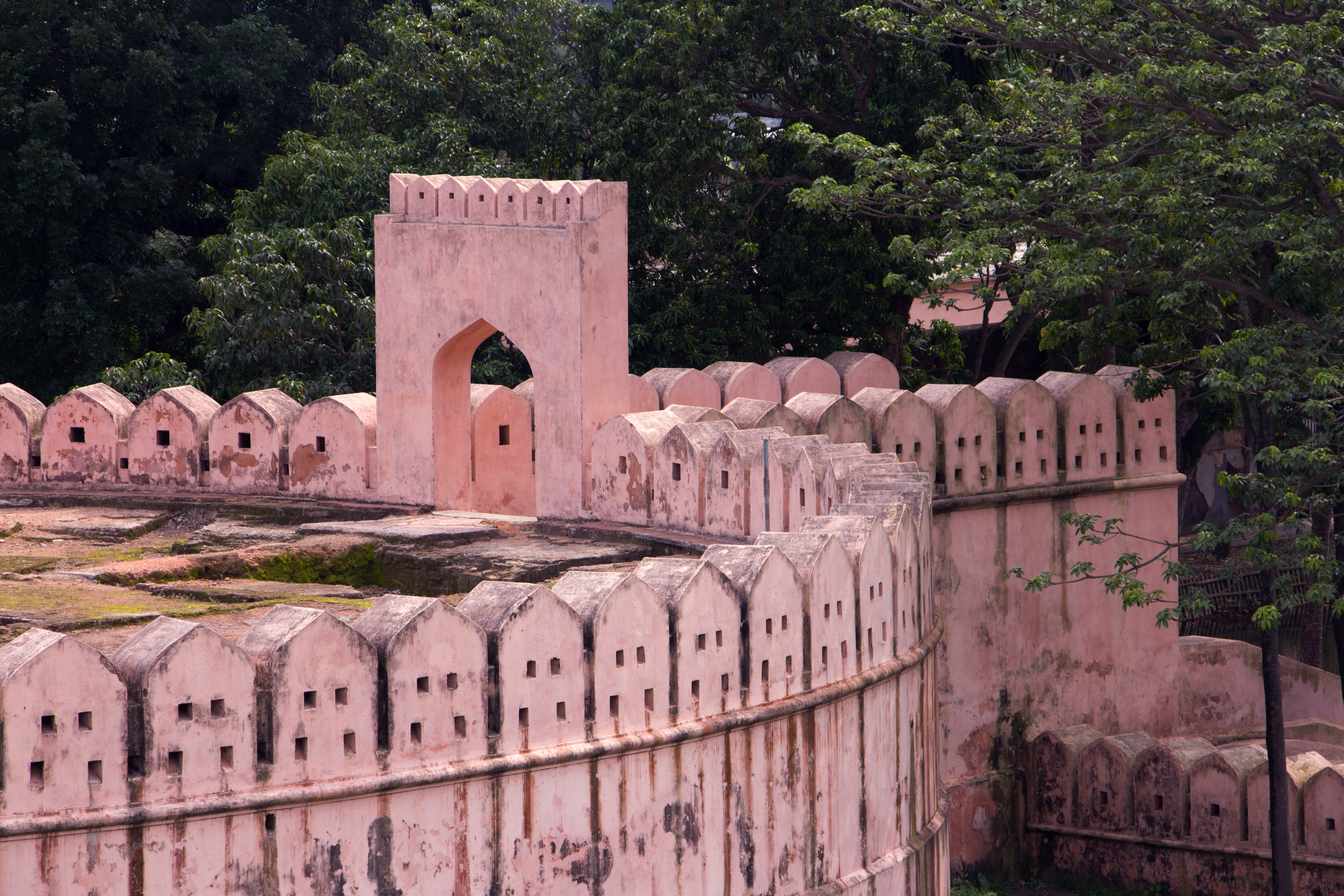 Idrakpur Fort is a river fort situated in Munshiganj, Bangladesh. The fort was built approximately in 1660 A.D. According to a number of historians, the river fort was built by Mir Jumla II, a Subahdar of Bengal under the Mughal Empire, to establish the control of Mughal Empire in Munsiganj, and to defend Dhaka and Narayanganj from the pirates.[1] The fort was a part of the triangular defence strategy for the vulnerable river route, from where the pirates used to attack Dhaka. The strategy was developed by Mir Jumla II with the help of the other two forts in Narayanganj- the Hajiganj Fort and the Sonakanda Fort.